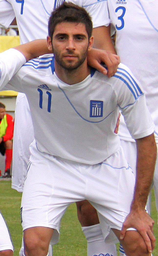 Greece U-21 before the friendly-match against Austria U-21 (2:3), 2011-09-05 in Gloggnitz – The photo shows (from left to right) 1st row: Nikos Kaltsas (Veroia FC), Alexis Apostolopoulos (Paok FC), Nikos Karelis (Ergotelis FC), Kostas Triantafyllou (Panserrakios FC), Christos Chrysofakis (Ergotelis FC); 2nd row: Goiuri Londigin (Skoda Xanthi FC), Apostolos Vellios (Everton FC), Dimitris Stamou (Paok FC), Nikos Mitropoulos (Olympiakos Volou FC), Tassos Avlonitis (Kavala FC), Tassos Laos (Panathinaikos FC).